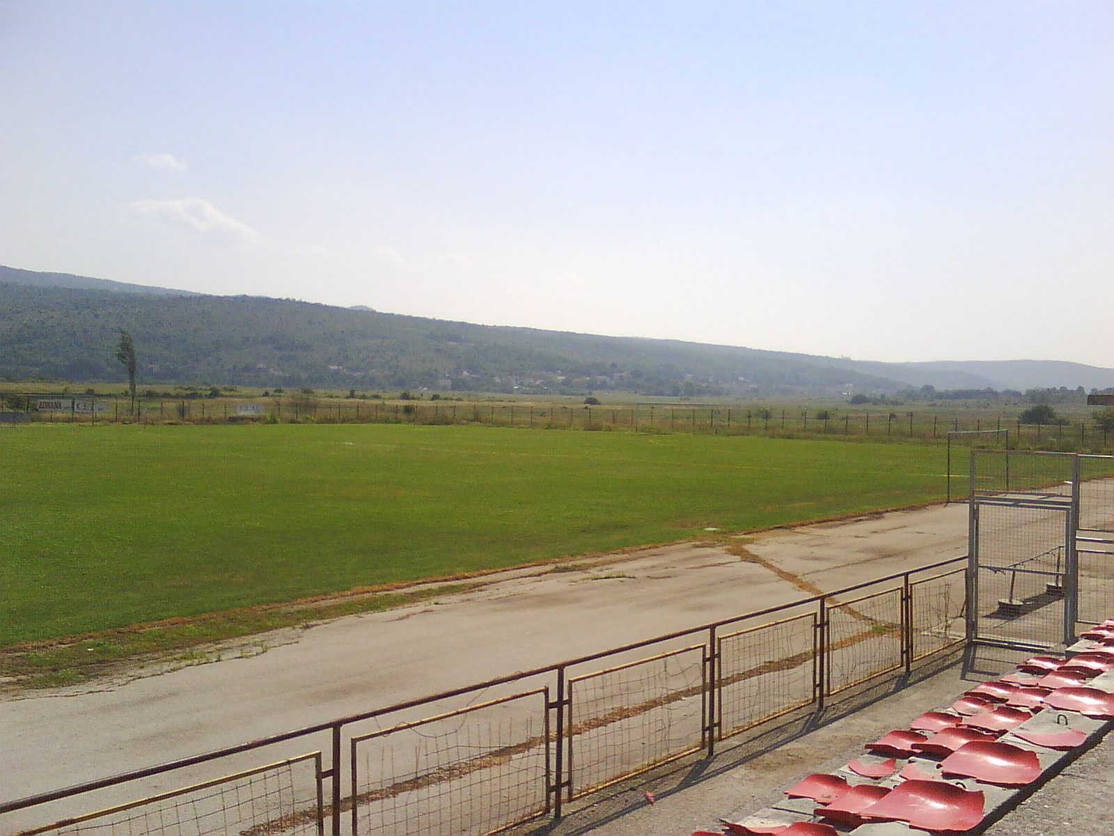 HNK Grude stadium